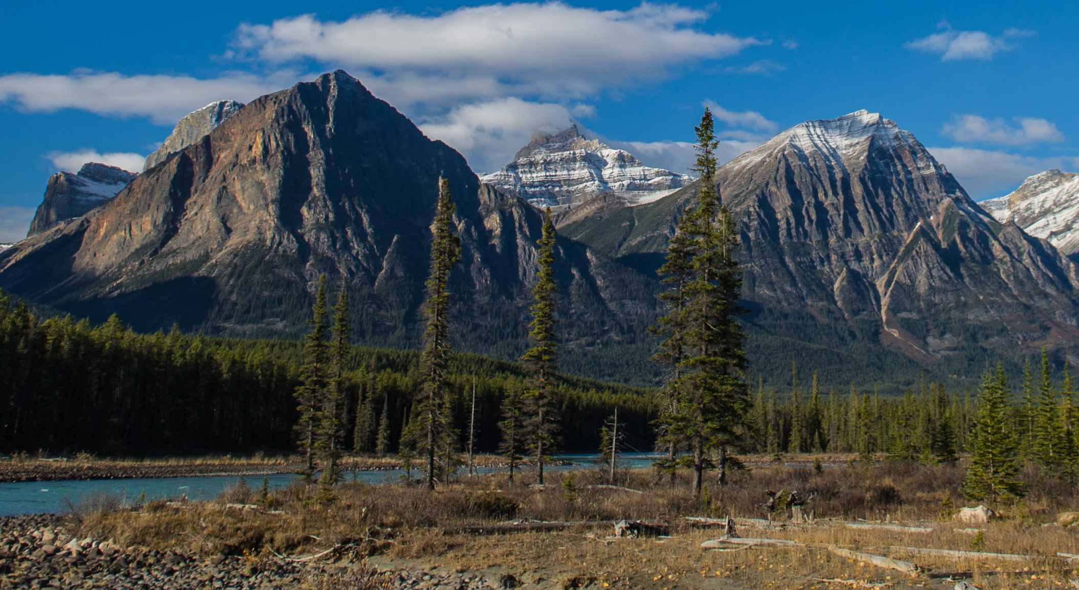 Mount Fryatt seen from Icefields Parkway, Jasper National Park, Alberta, Canada